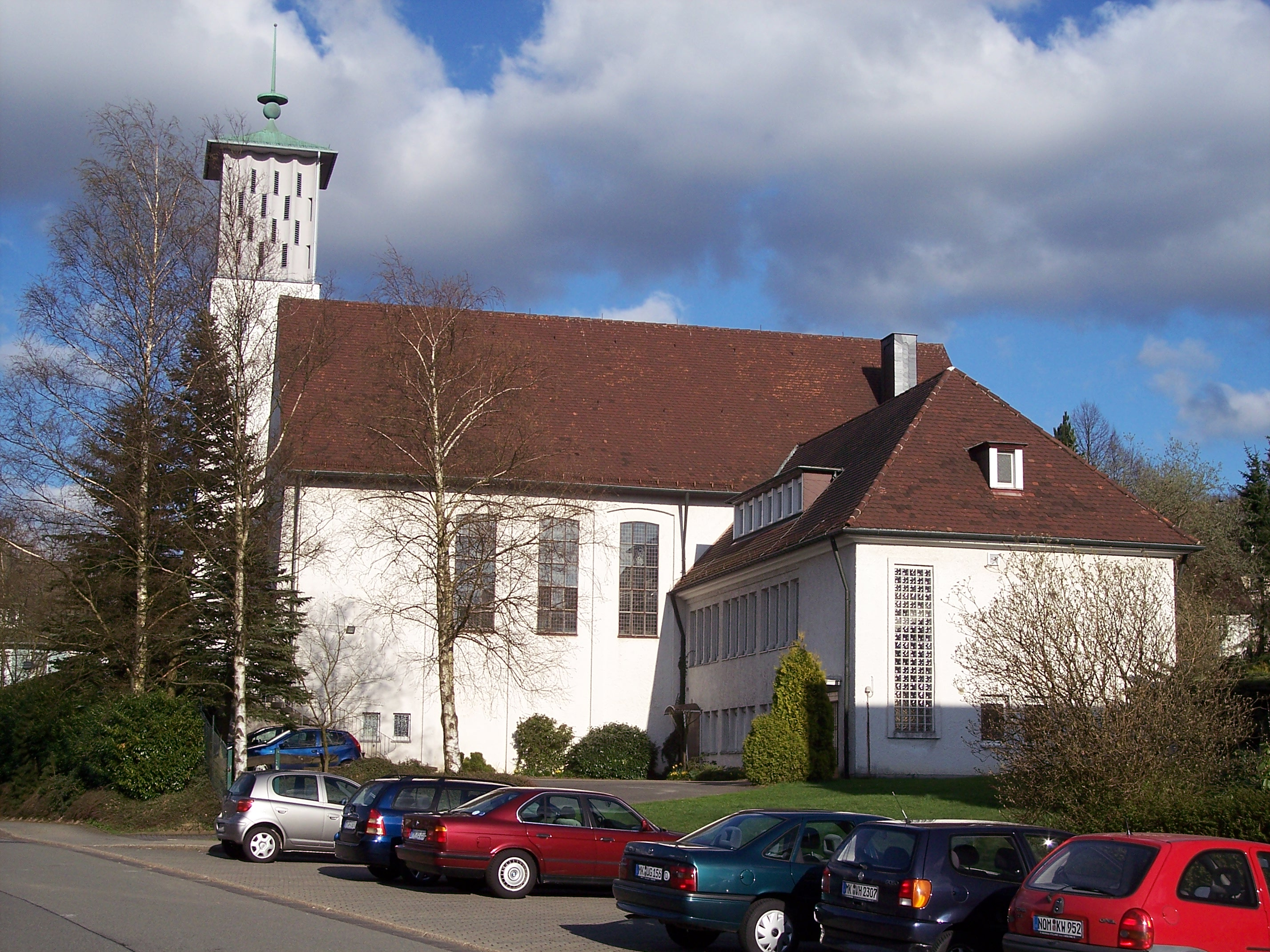 Lüdenscheid, Auferstehungskirche (Church of Resurrection) from Northwest